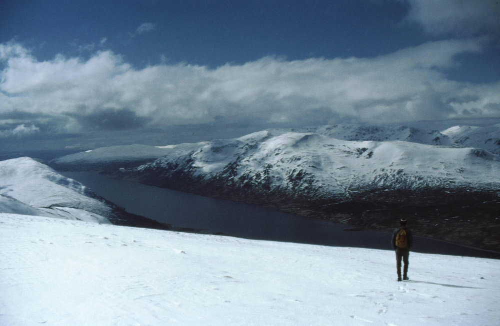 View from summit of Beinn Udlamain Loch Ericht, a huge hydro-electric reservoir below, with Beinn Bheòil and Ben Alder on the other side.